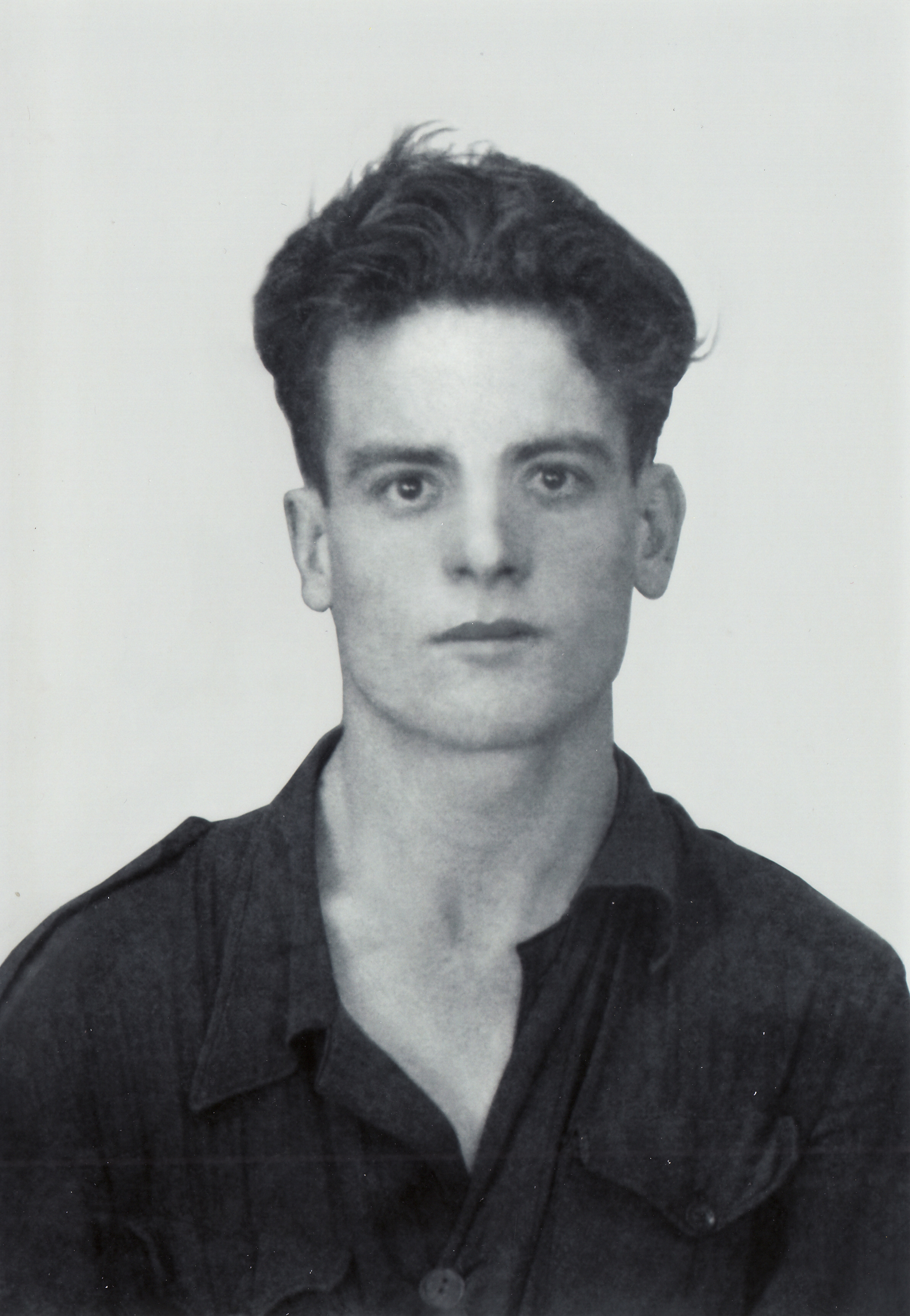 José Perelló Ballester, miliciano del Batallón Alicante Rojo y teniente del Ejército Popular Republicano